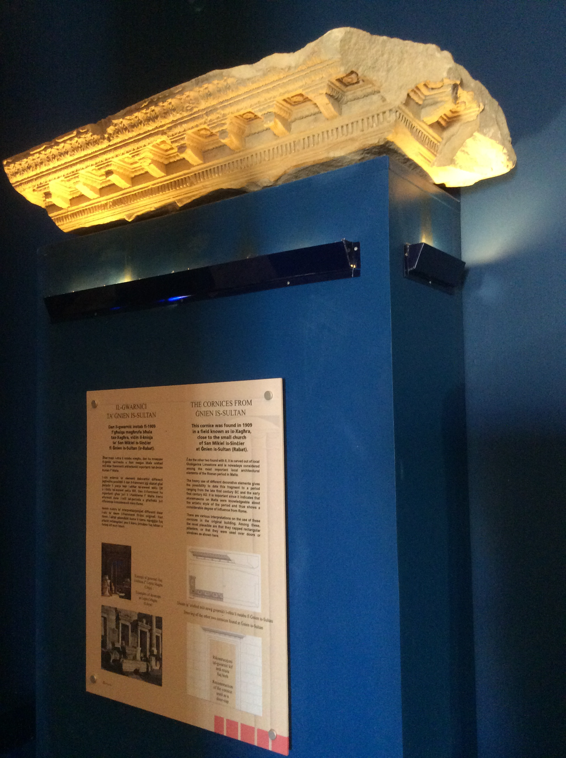 Roman coving